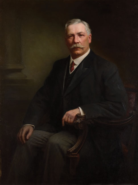 Portrait of Alexander Cameron Rutherford, Premier of Alberta (1905–10): the Alberta Government purchased this painting by commissioning Long to paint it when Rutherford's term as premier was over.